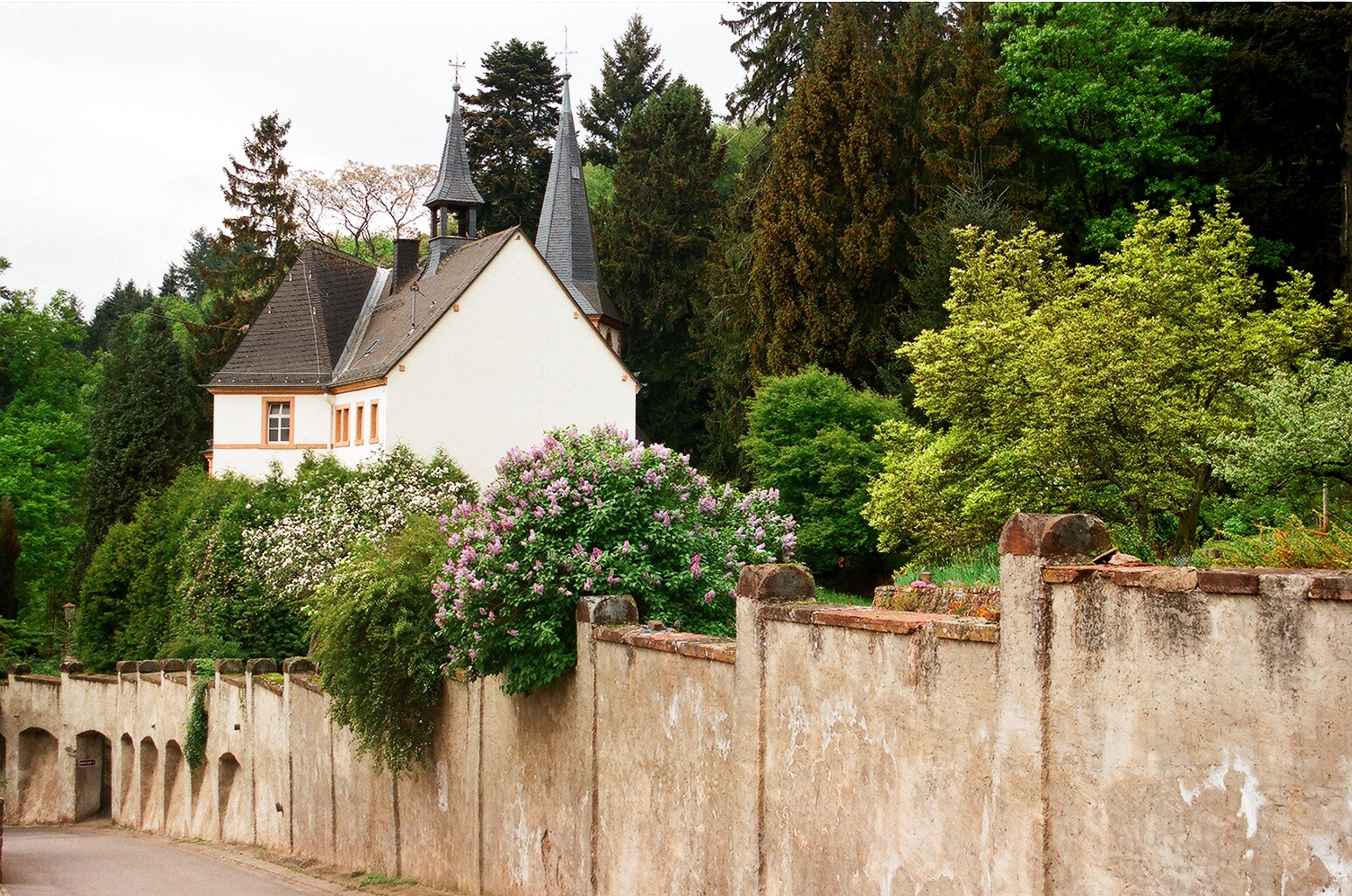 Sankt Gangolf (Mettlach), the church